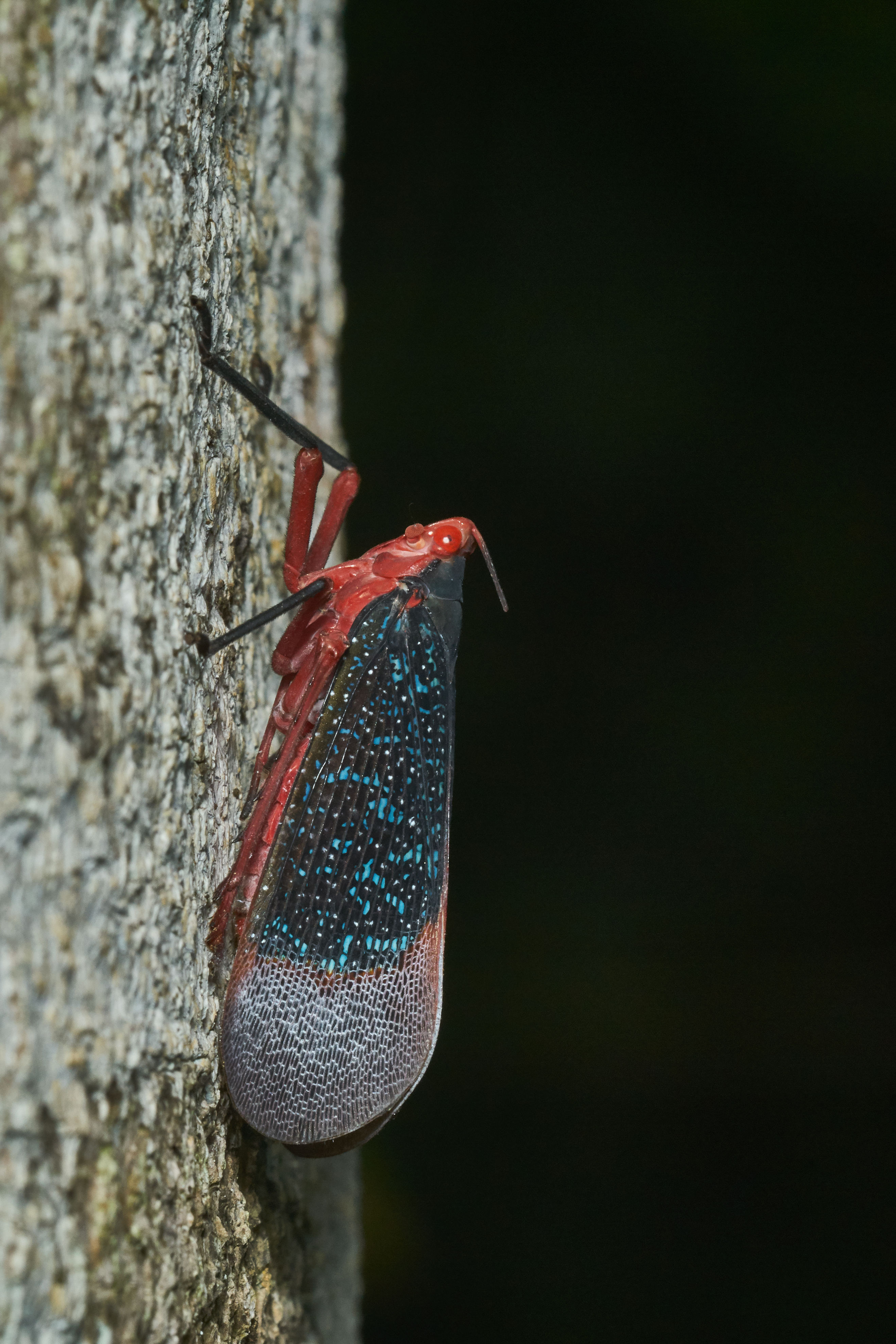 Kalidasa lanata is a species of Hemiptera in the genus Kalidasa of the family Fulgoridae found in South India. Here it is enjoying the sap of Ailanthus triphysa.